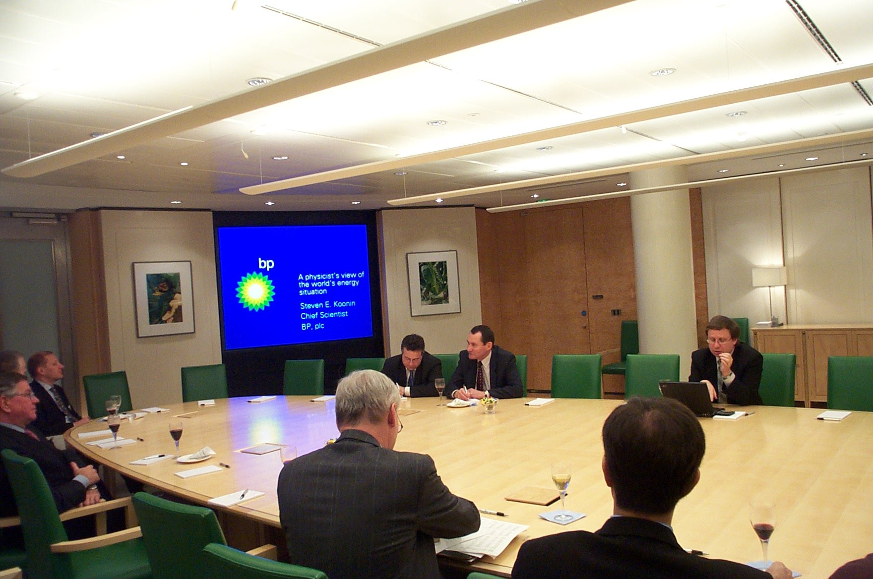 Chief Scientist of BP, Steven Koonin (top right, with computer), speaks about the energy scene in the BP boardroom (but it was not a board meeting), 2005-02-22. Copyright © Kaihsu Tai.